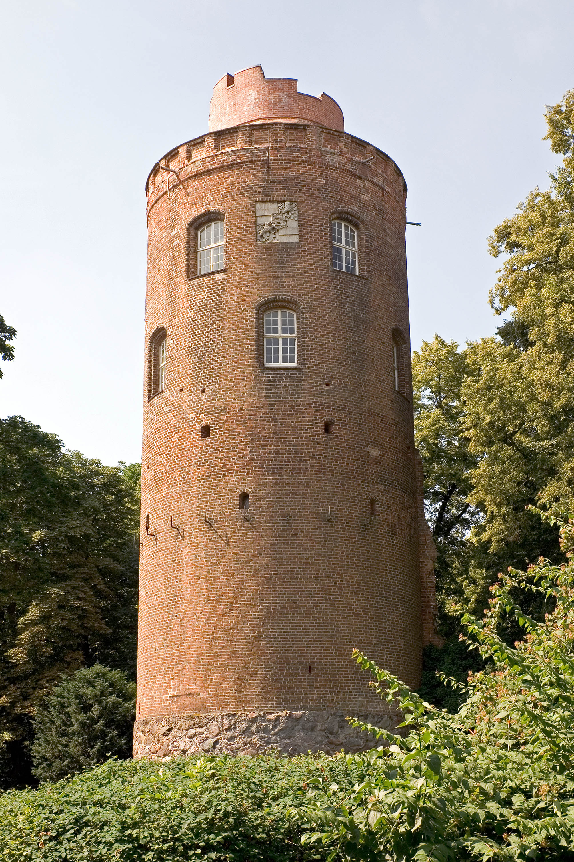 Amtsturm, remains of the former castle of the county Lüchow (of about 1100 to 1320), in Lüchow (Wendland) in Lower Saxony, Germany.